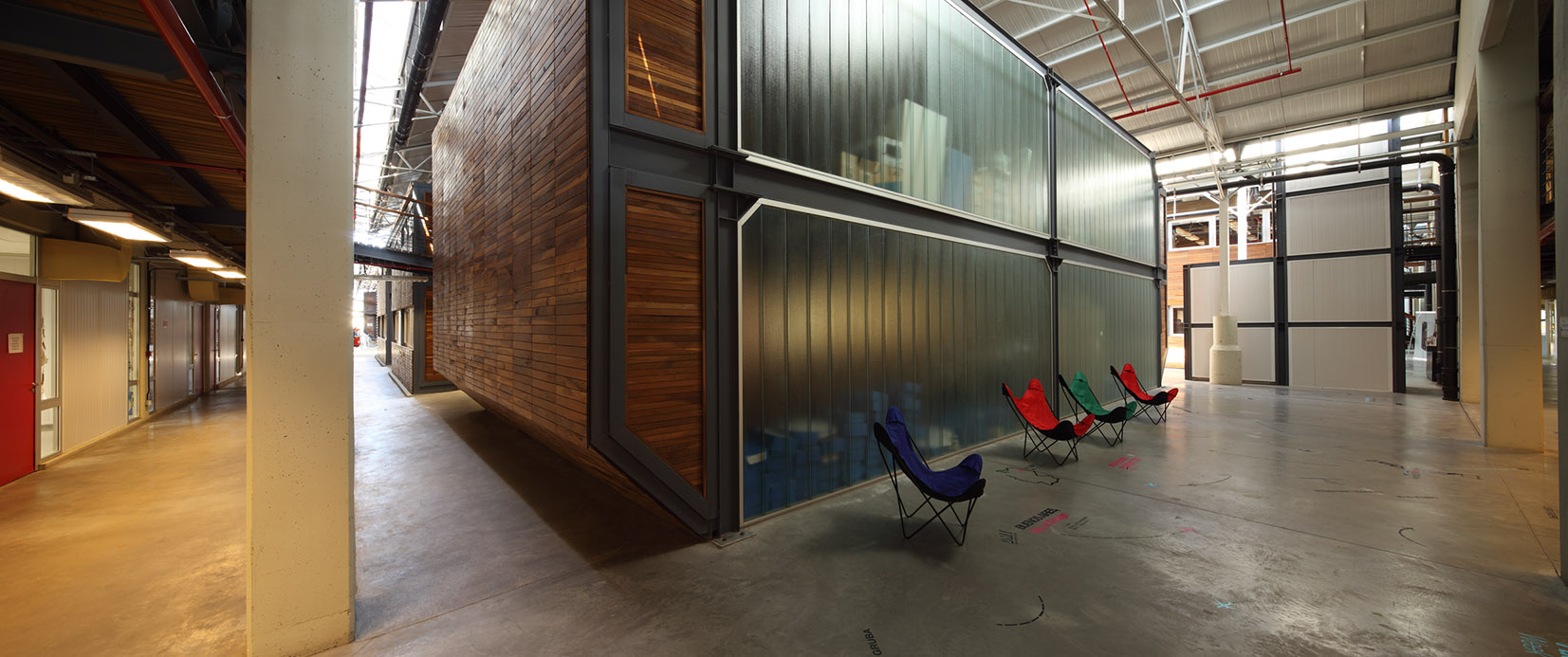 barcos interior